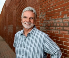 John Paul Jackson, Author, Speaker, Dreamer, Founder of Streams Ministries International